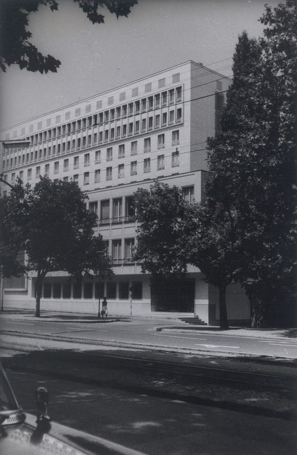 Hotel Metropol, around 1950. Projected by architect Dragiša Brašovan.